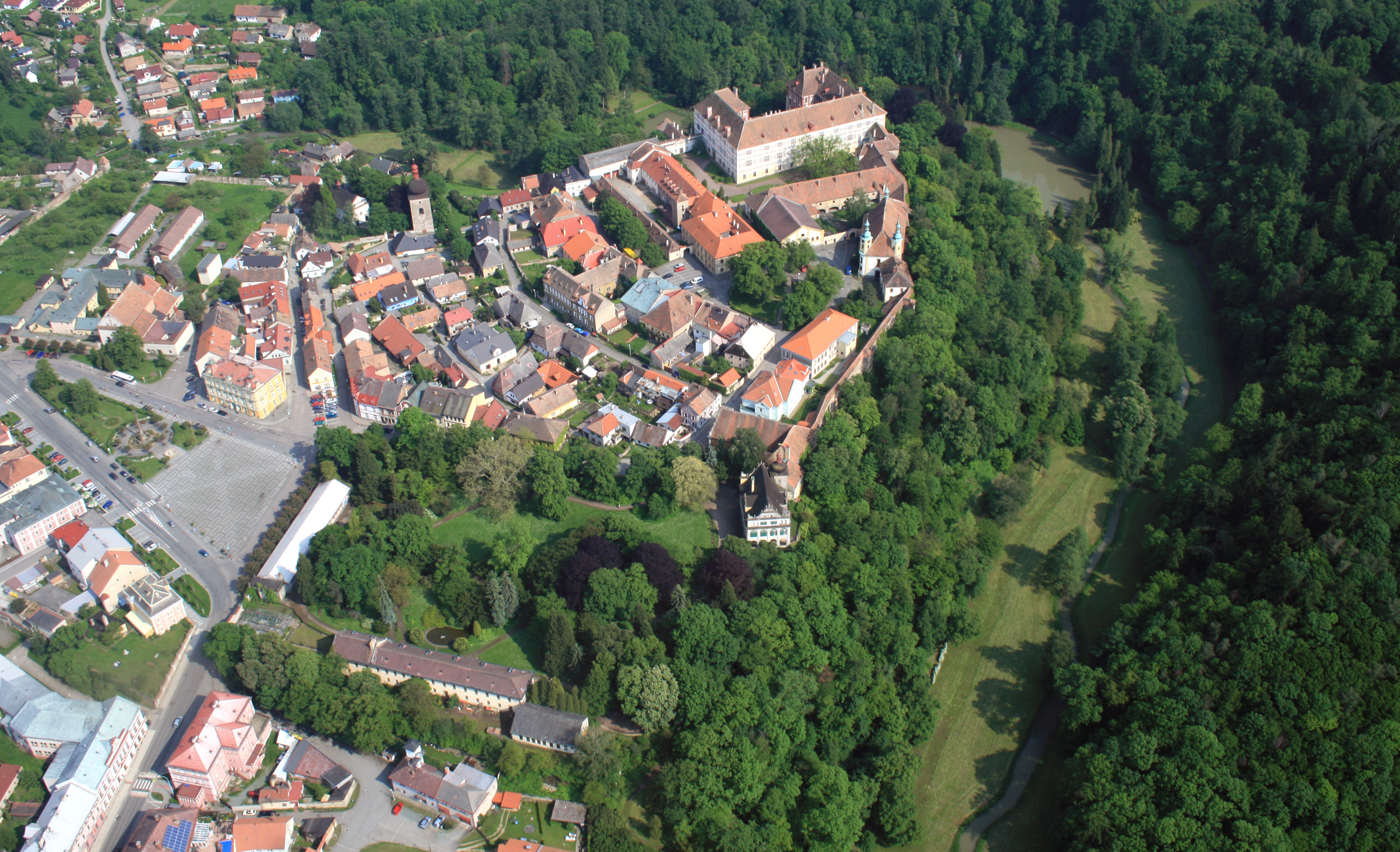 Opočno castle and centrum of Opočno town from air, eastern Bohemia, Czech Republic